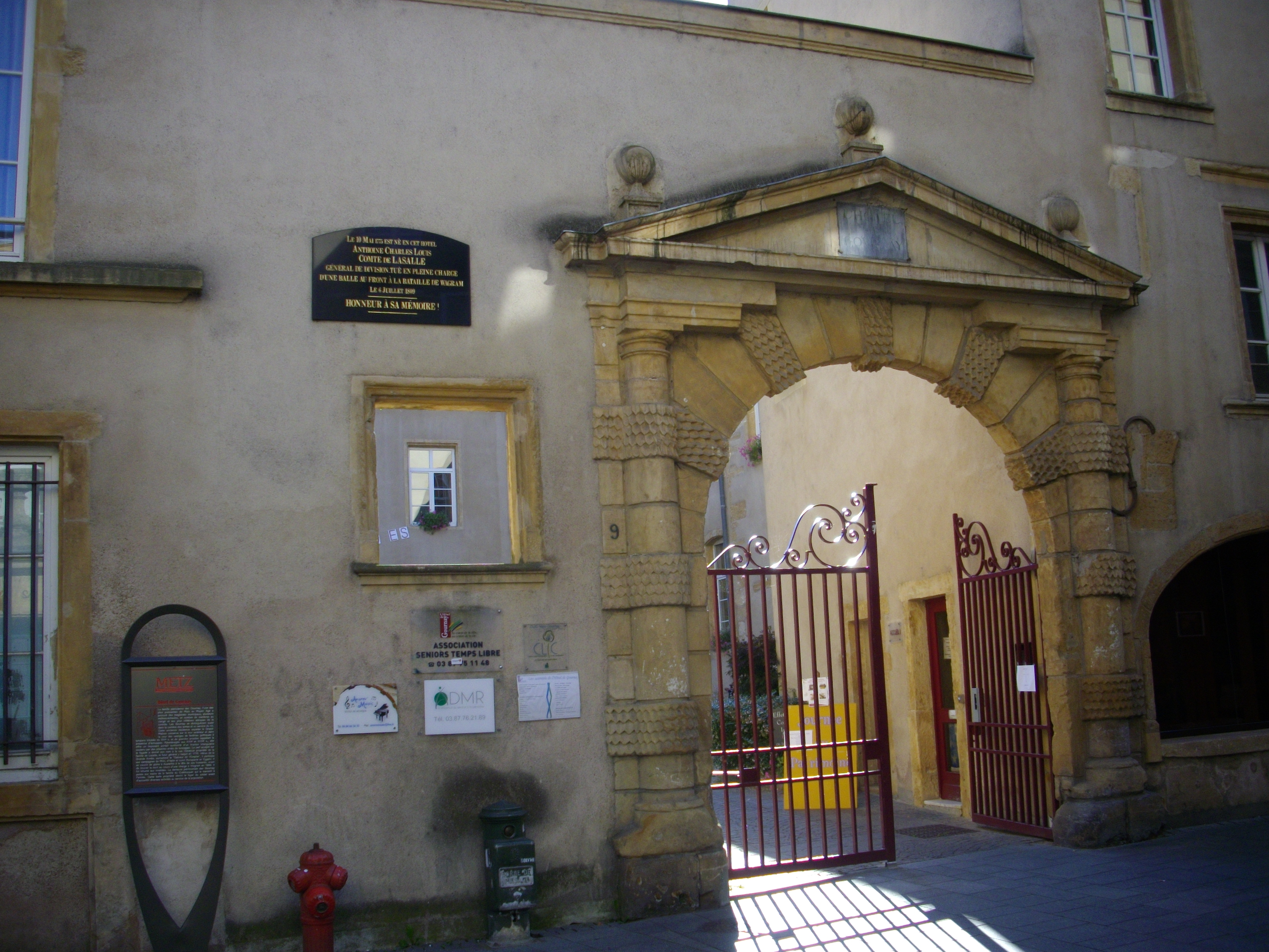 Gournay hostel in Metz (Moselle, France) ; portal .